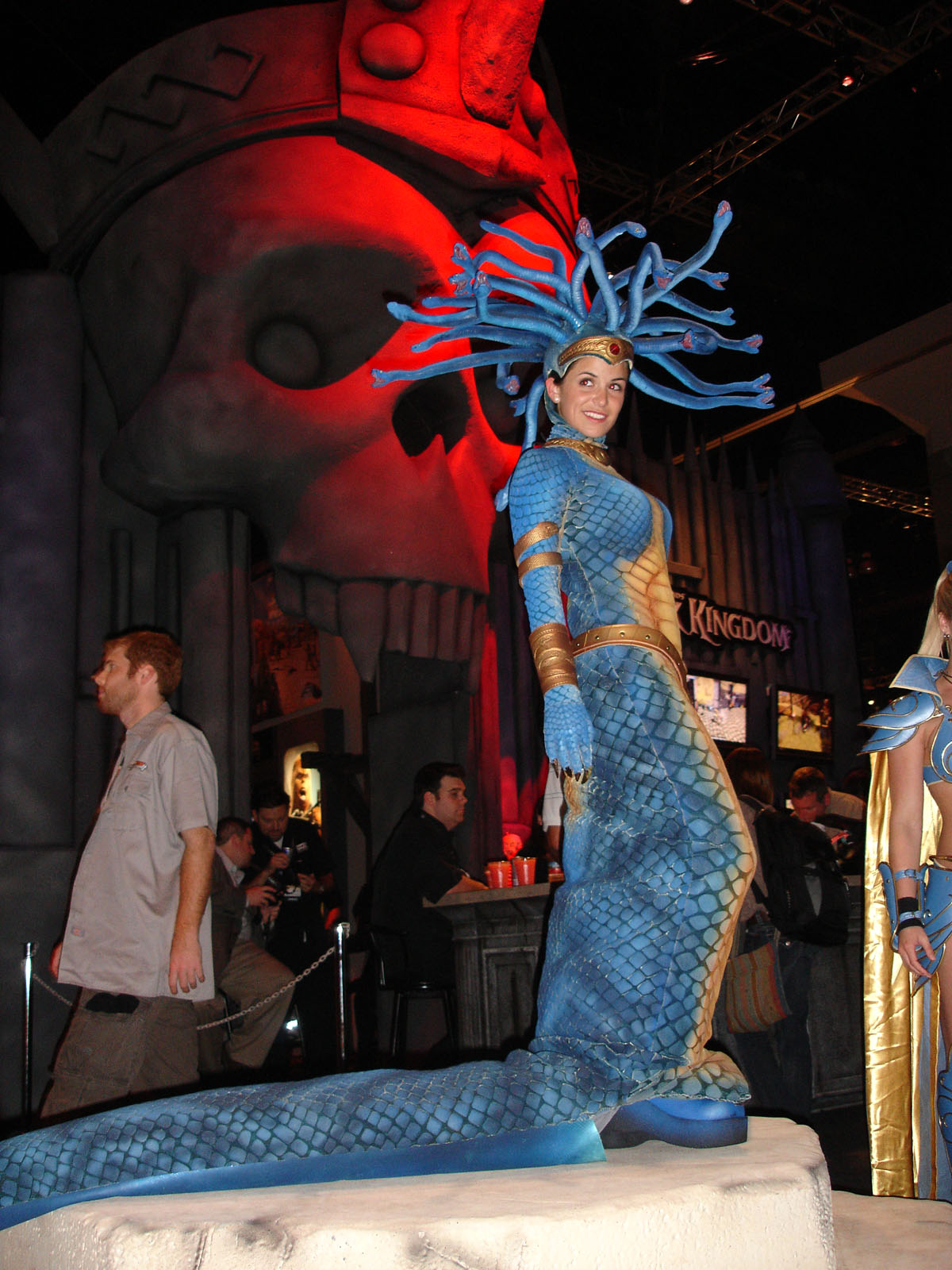 A model at the Electronic Entertainment Expo 2006.